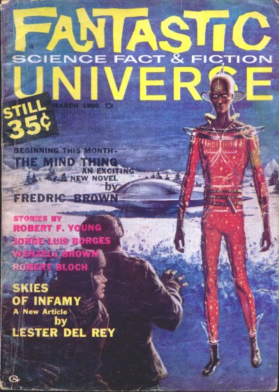 Cover of Fantastic Universe, March 1960